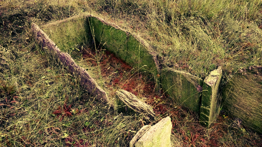 Plevun dolman 2 BG